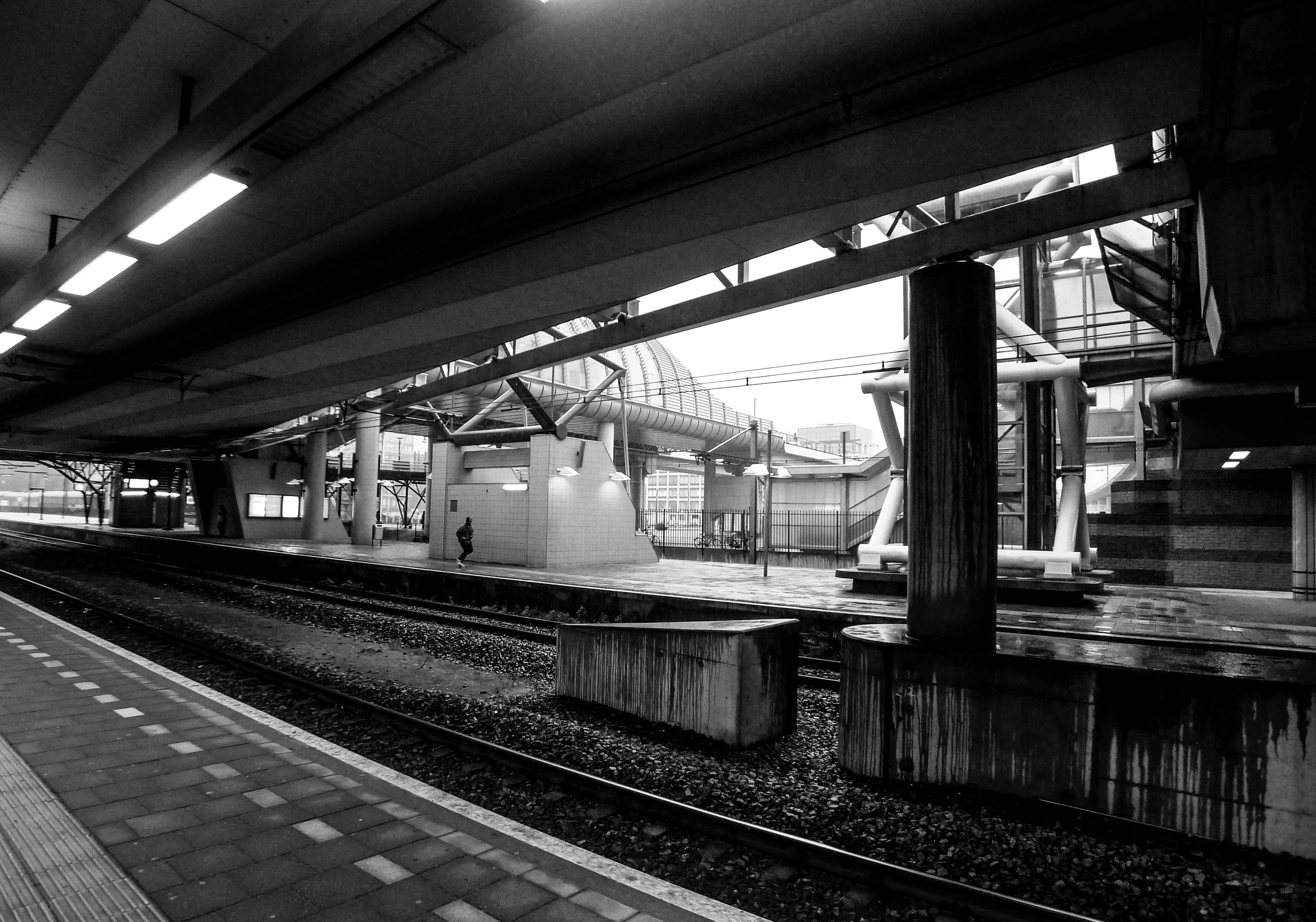 Station Sloterdijk Amsterdam